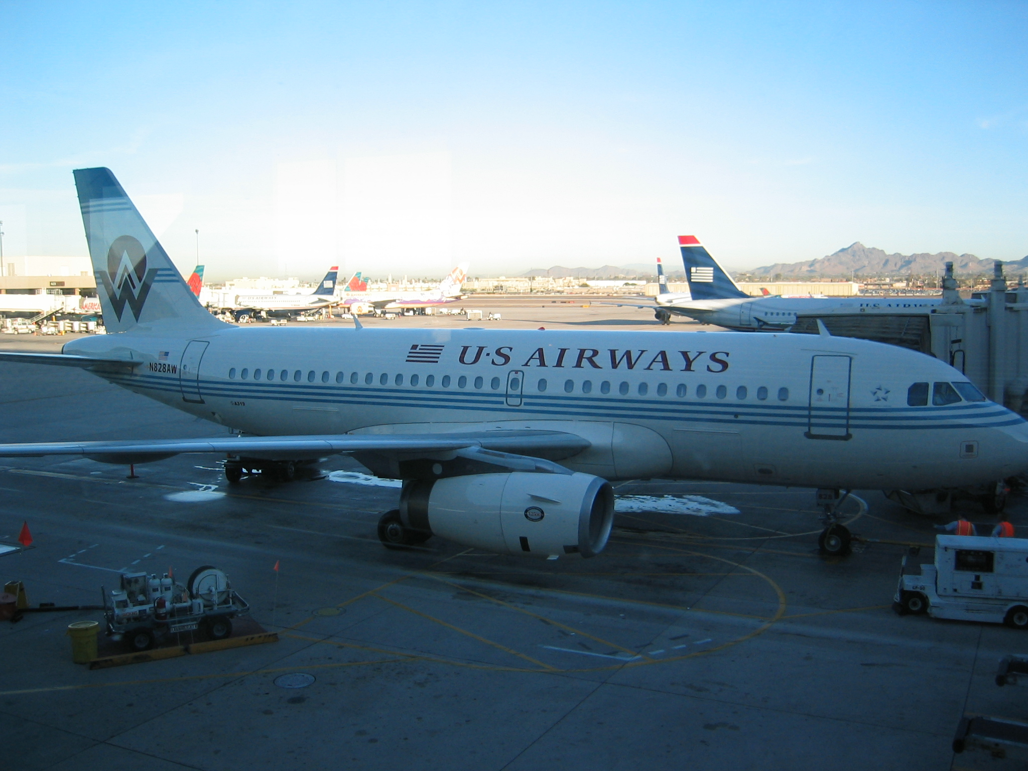 US Airways/America West Airlines Airbus A319-132 N828AW, painted in original America West heritage livery, at Phoenix Sky Harbor International Airport